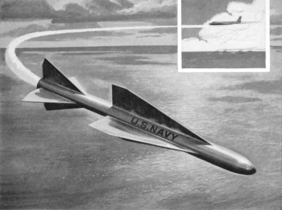 An artist's conception of the Bendix AAM-N-10 Eagle air-to-air missile for the Douglas F6D Missileer fighter. Both programes were cancelled in December 1961.